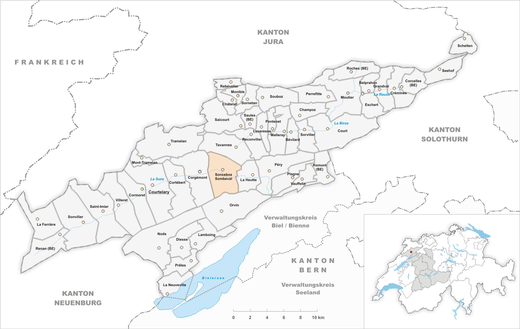 Municipality Sonceboz-Sombeval